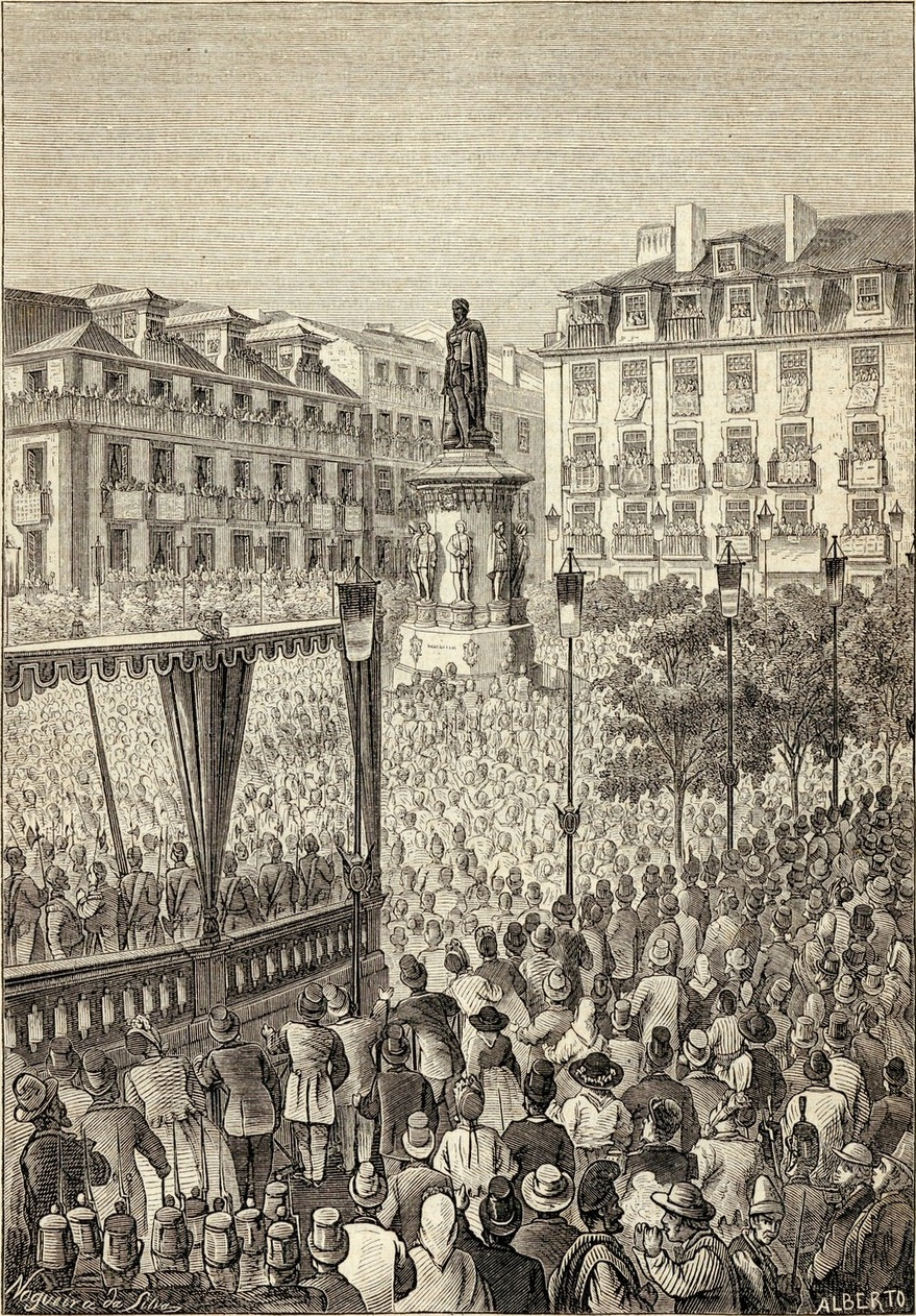 Unveiling of the monument to Luís de Camões, in Lisbon, Portugal, on 9 October 1867